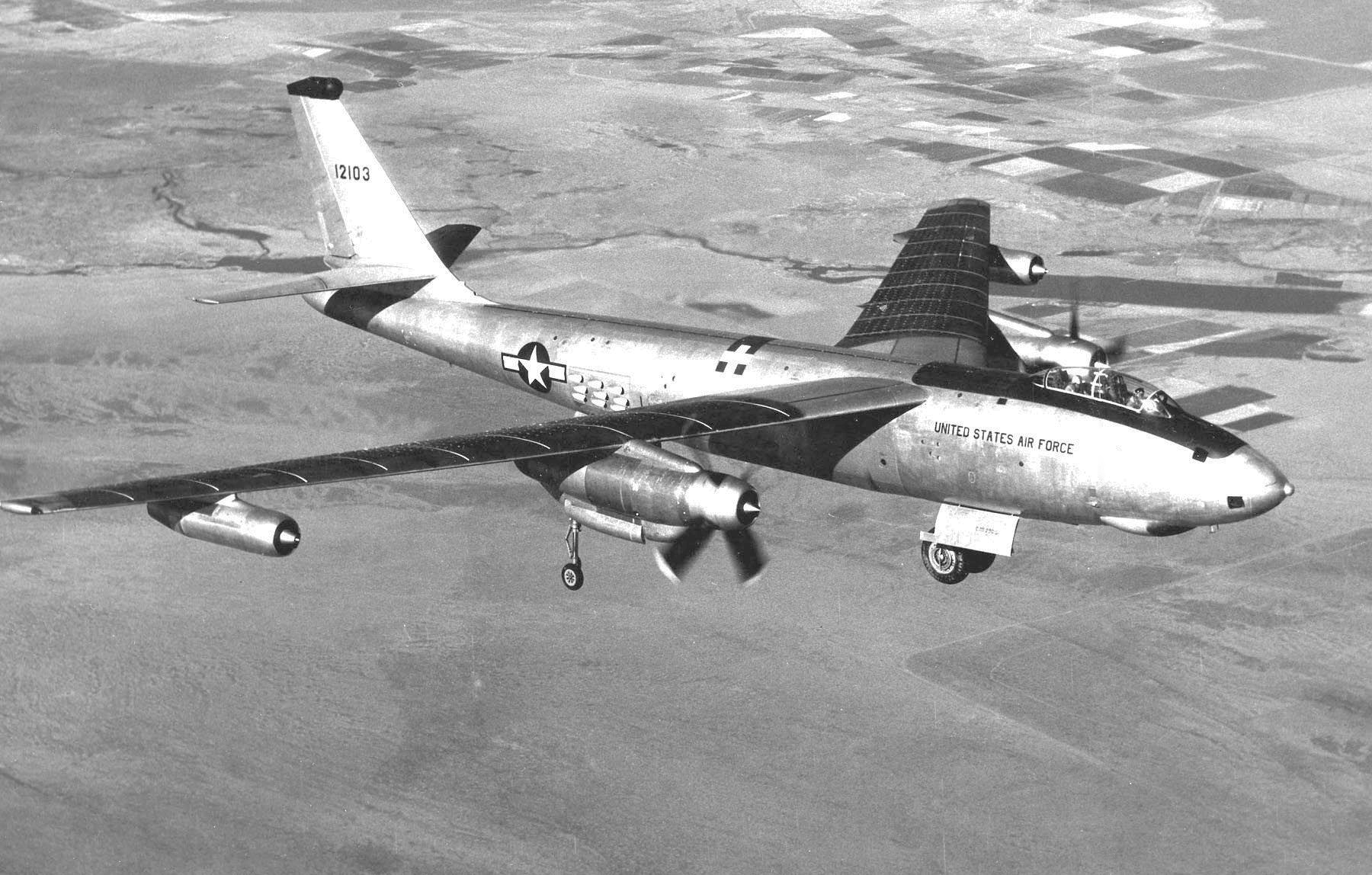 Experimental fit of Wright YT49-W-1 turboprop engine and four-blade paddle prop